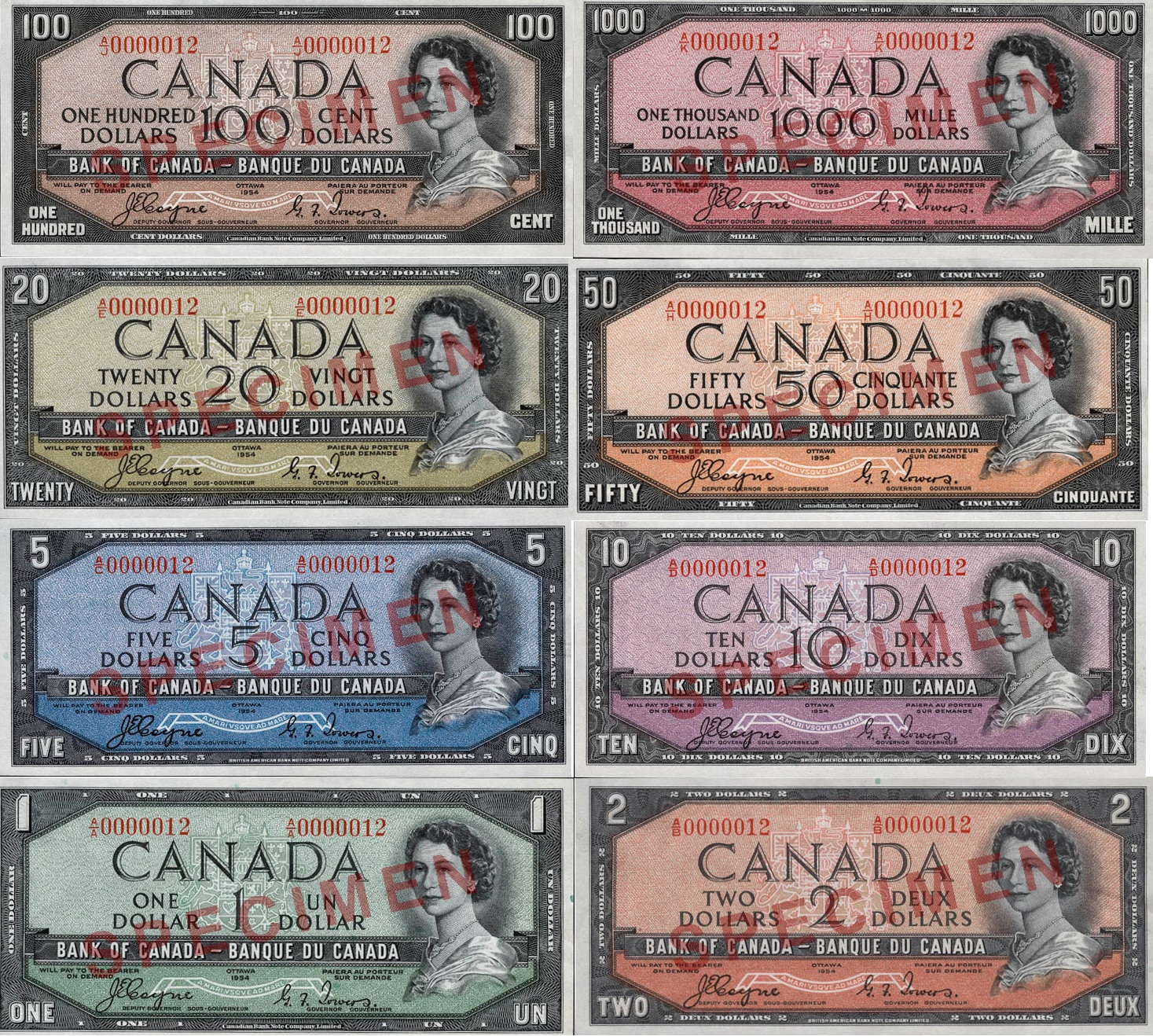 Collage of obverse side of the 1954 Series, Canadian $1, $2, $5, $10 ,$20. $50, $100, and $1000 bills.